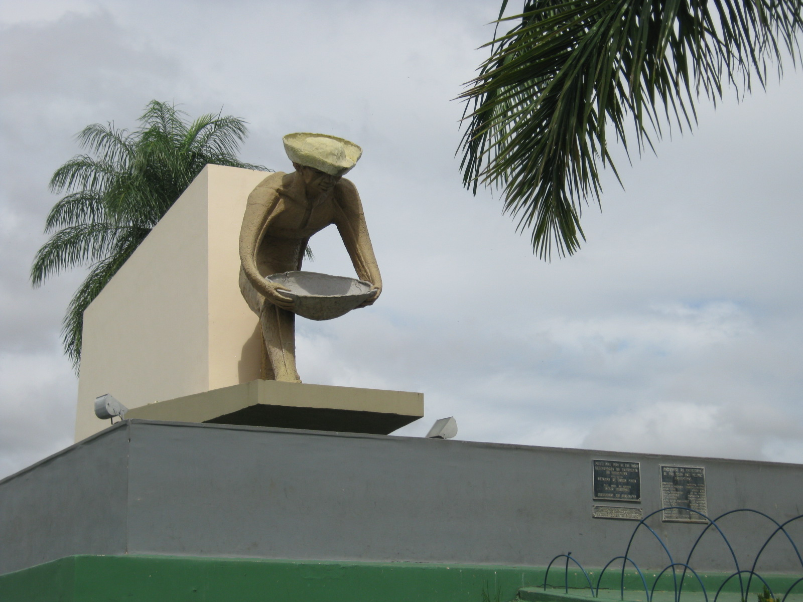 Gold prospector monument, Roraima, Brazil.